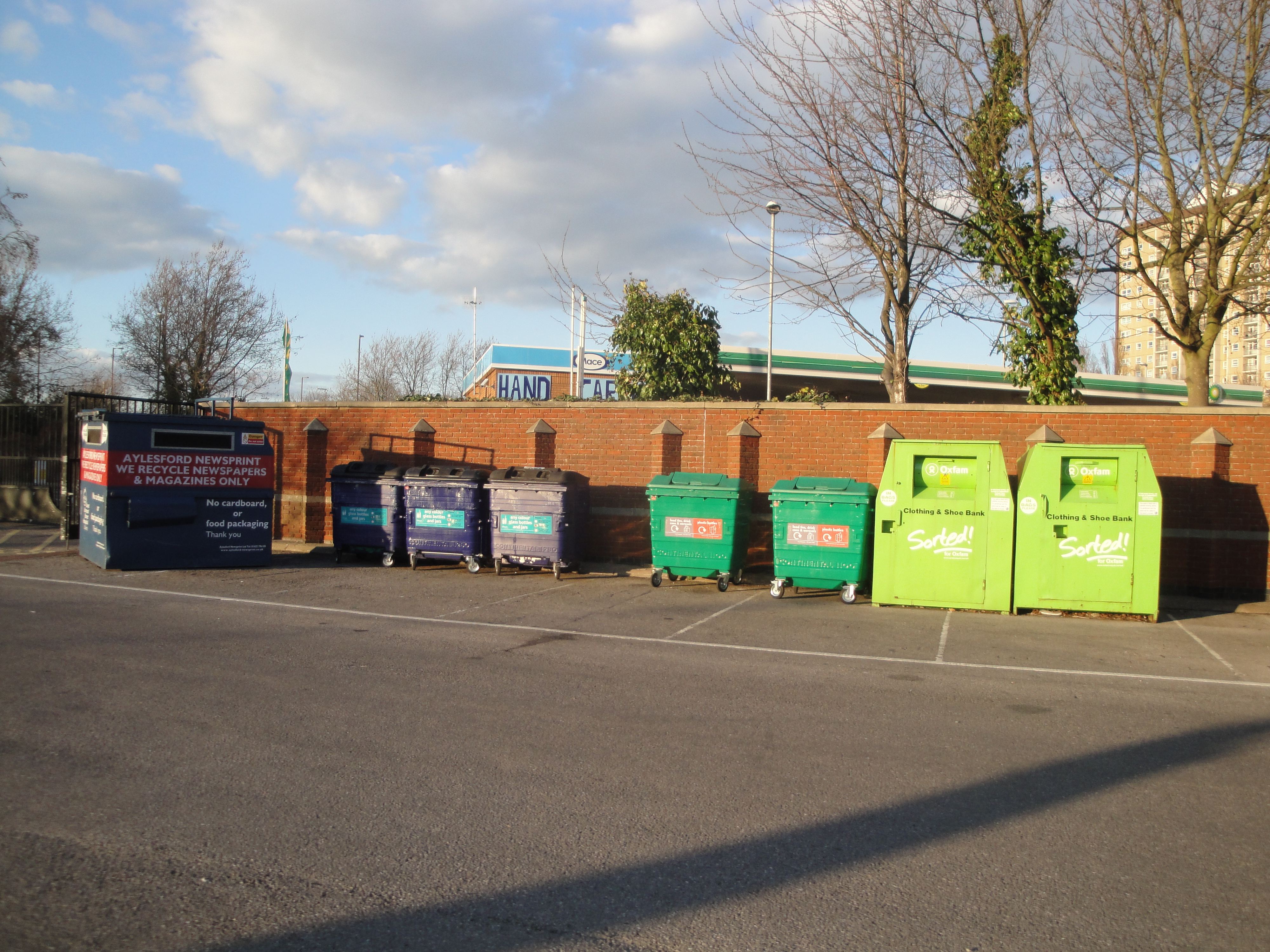 The recycling site in the car park of Sainsbury's, Commercial Road, Portsmouth, Hampshire, in March 2012.